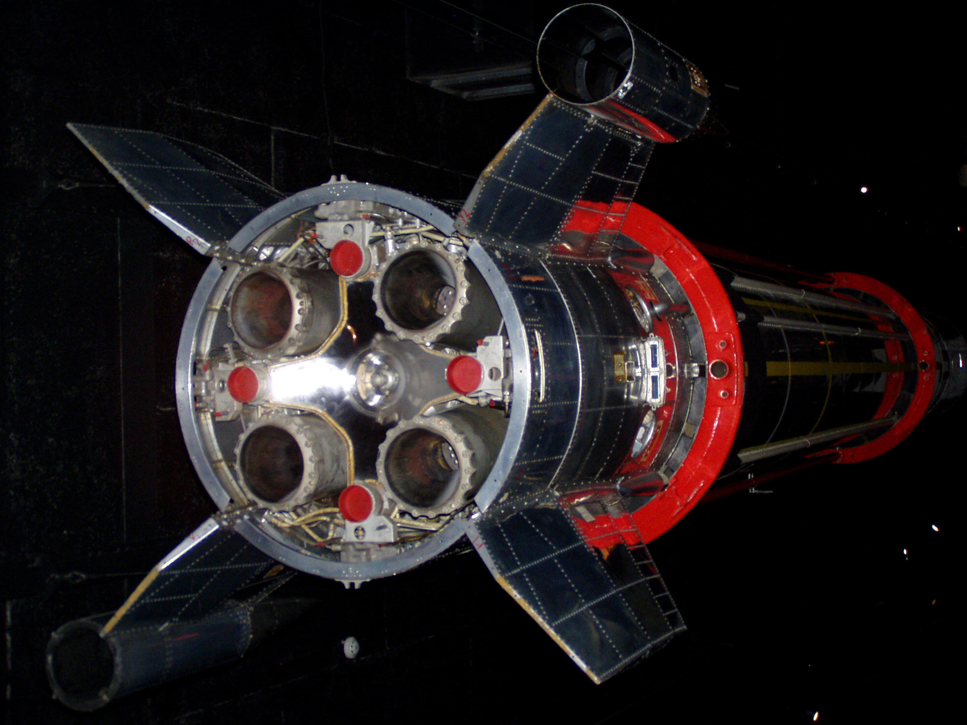 Black Knight tail showing motors at World Museum Liverpool